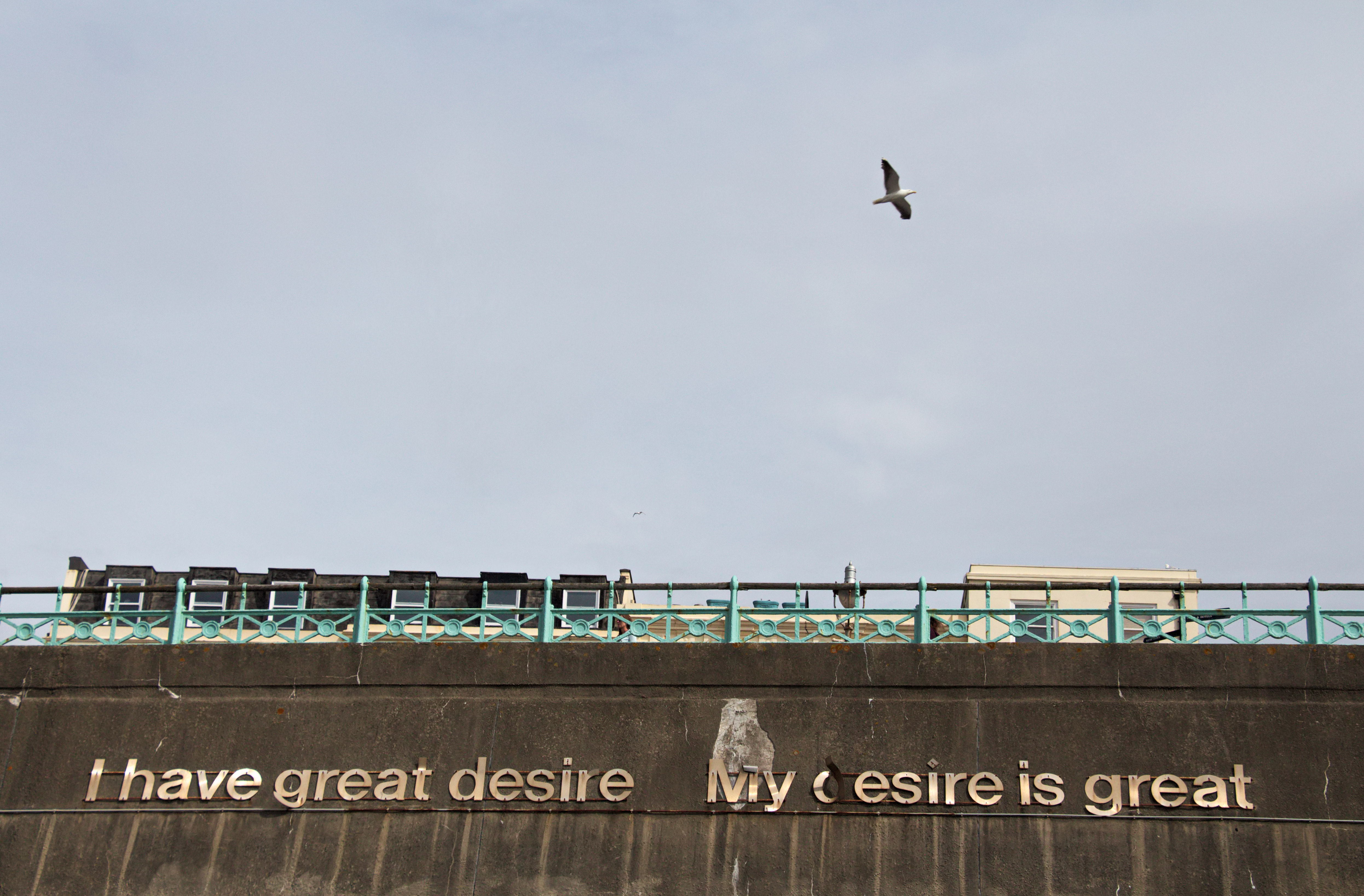 The letters forming the sentence I have great desire, My desire is great is a 2008 temporarily installed artwork by Naoimh Looney. It s attached to a wall facing the seafront at Madeira Drive Promenade in Brighton.